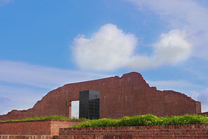 The monument for intellectual martyrs killed in 1971 during the Bangladesh's liberation war against Pakistan.